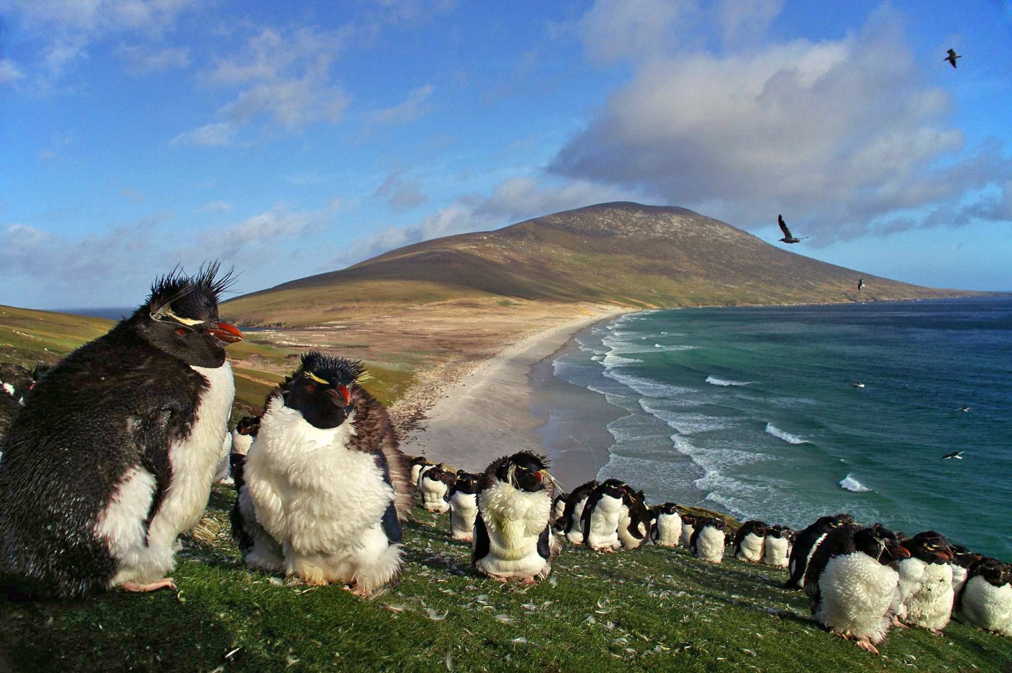 Saunders Island with Southern Rockhopper Penguins (Eudyptes chrysocome)